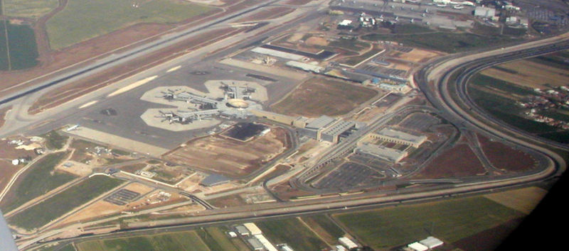 Ben Gurion International Airport from the air taken by orangecalx at 17.4.04 and uploaded by his Permission. נתב"ג 2000 מהאוויר - צולם בתאריך 17.4.04 על ידי orangecalx והועלה בהרשאתו Note that the terminal was still under construction at the time this picture was taken.